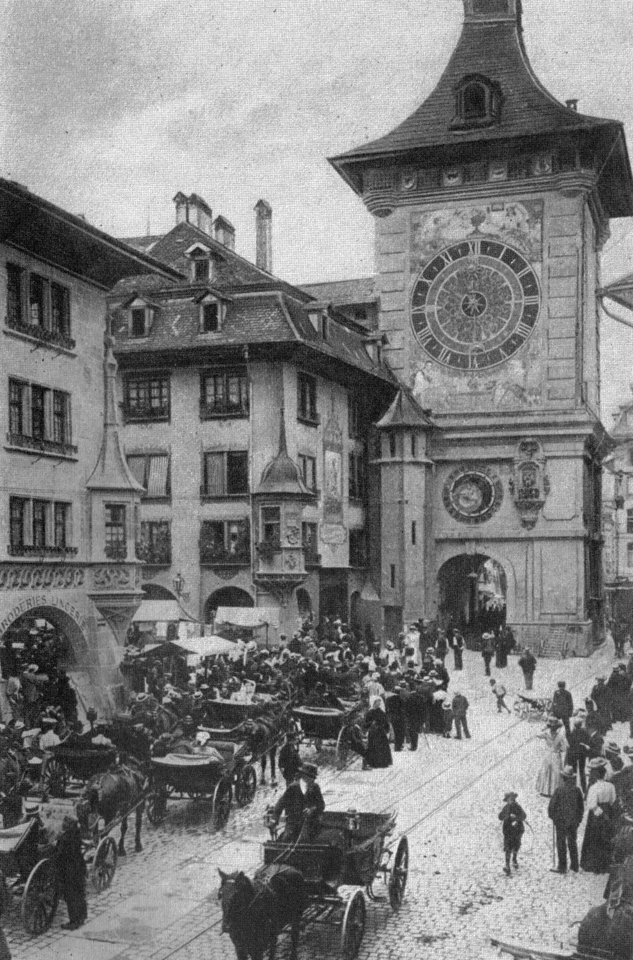 The Zytglogge tower in Bern, Switzerland, as seen from the Kramgasse on a market day.